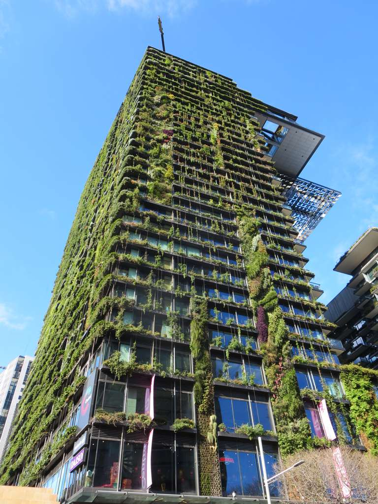 One Central Park A vertical garden encloses One Central Park (2013) on Broadway in Sydney, Australia.